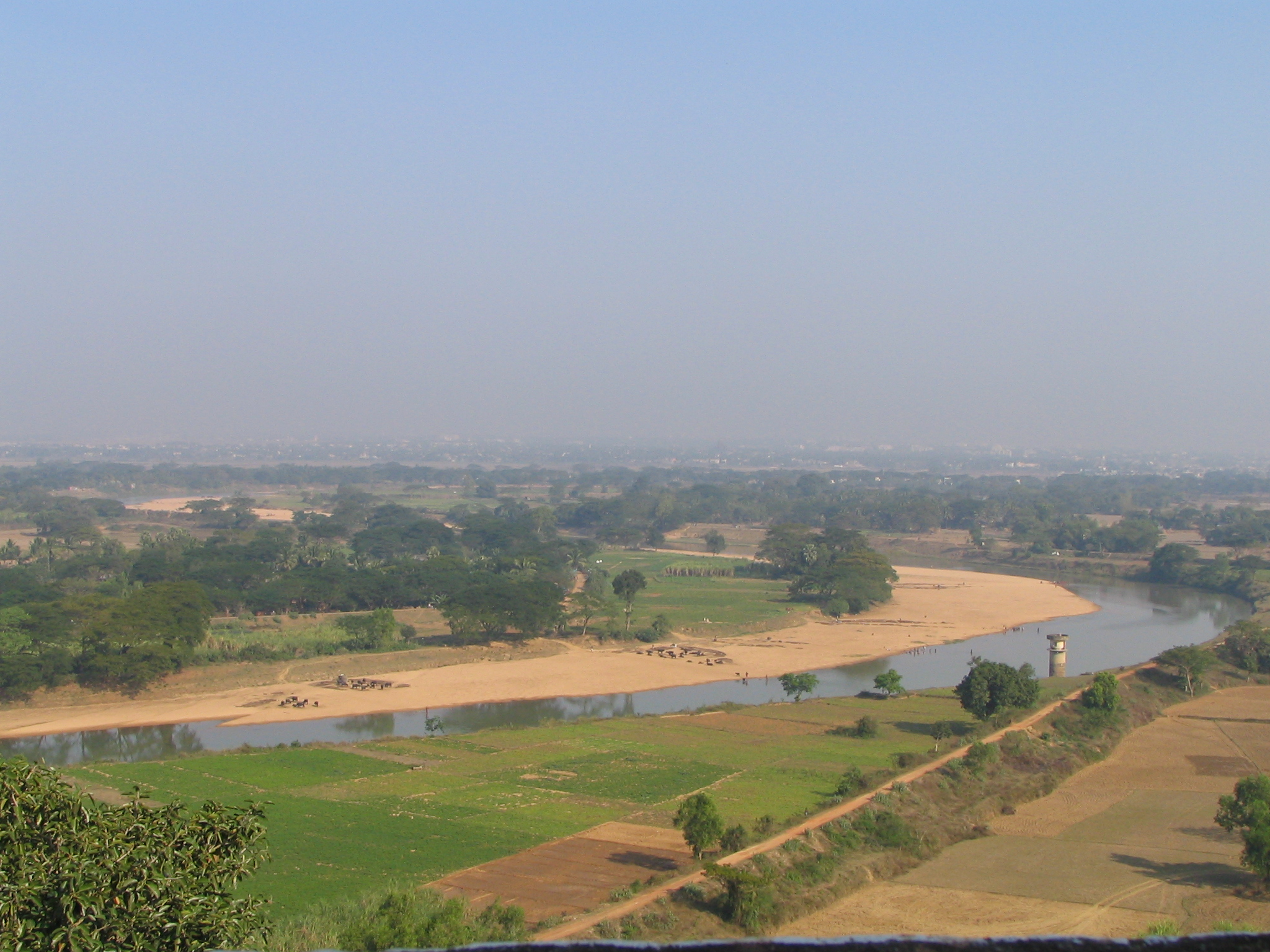 View of the banks of the Daya River from a top Dhauli Hills, the presumed venue of the Kalinga war now it has become major developing area for new residential buildings.